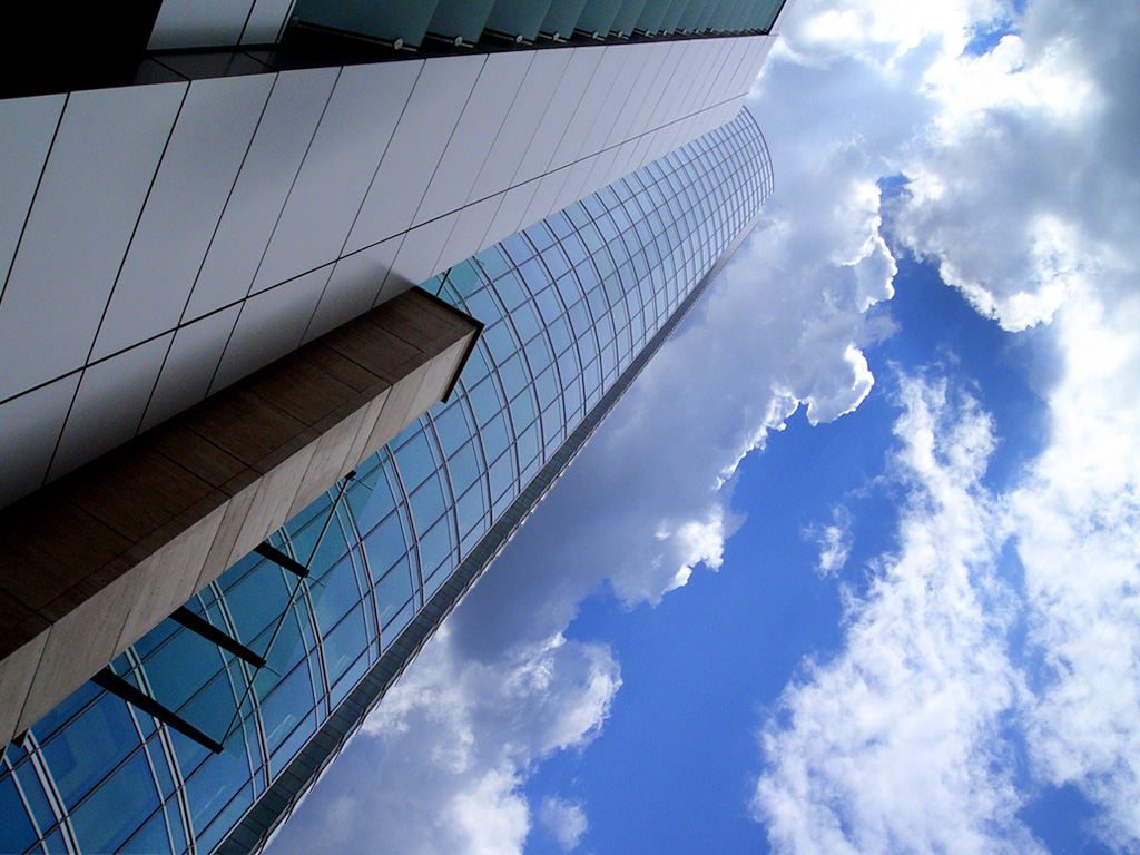 Rondo 1 scyscraper in Warsaw, Poland